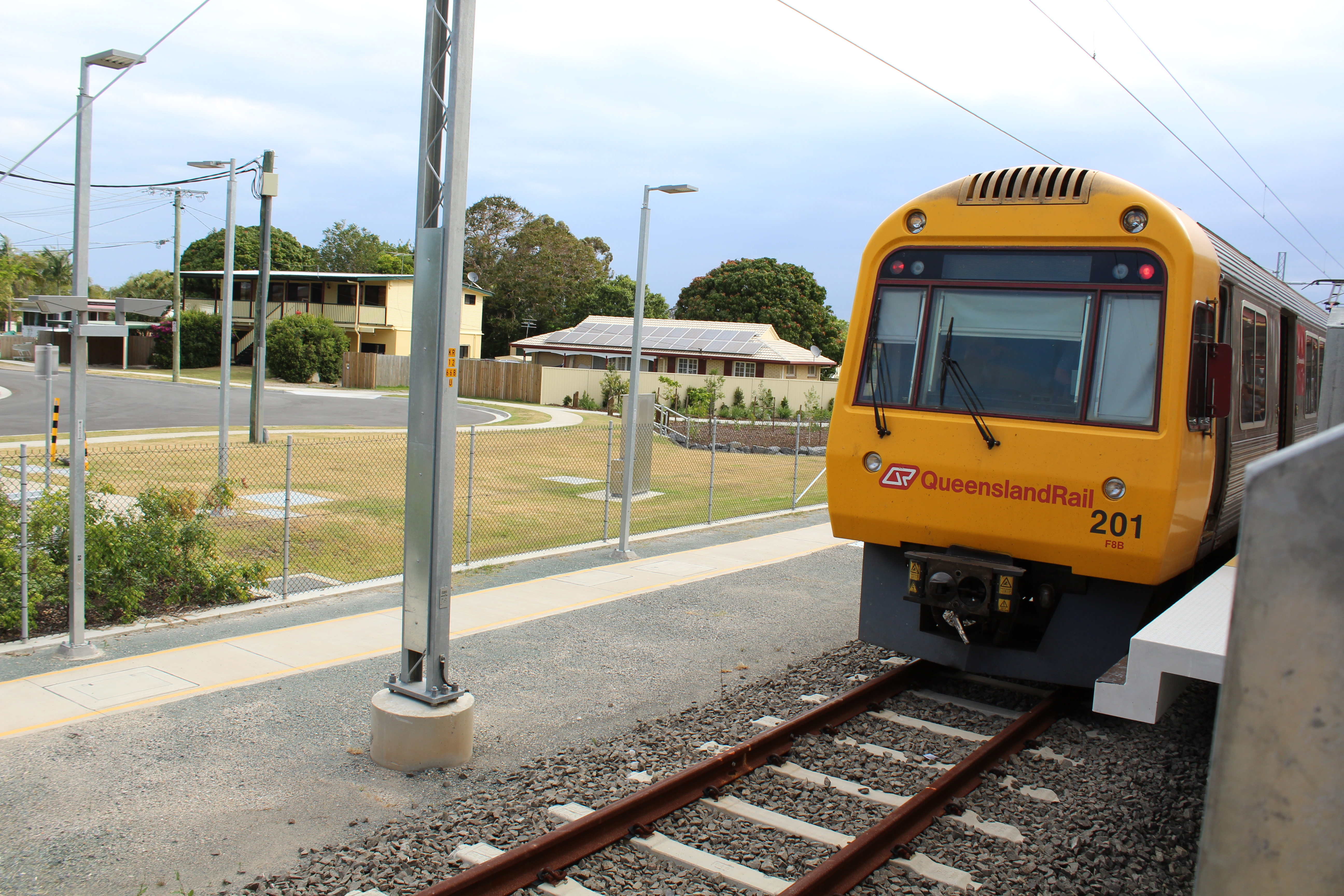 SMU201 and 204 at Kippa-Ring